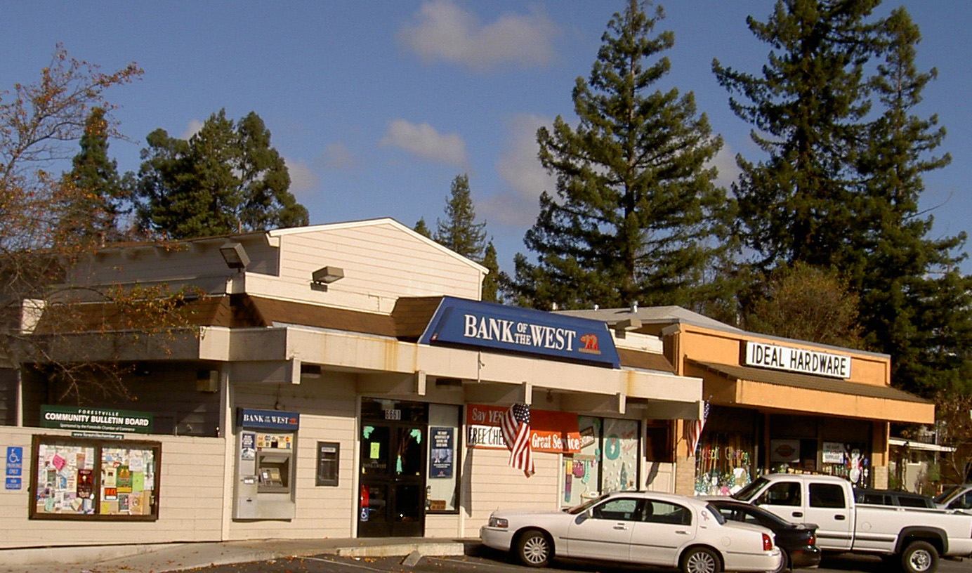 Photo of downtown Forestville taken from the south side of Front Street (State Route 116) by Stephen Gold on December 7, 2007.